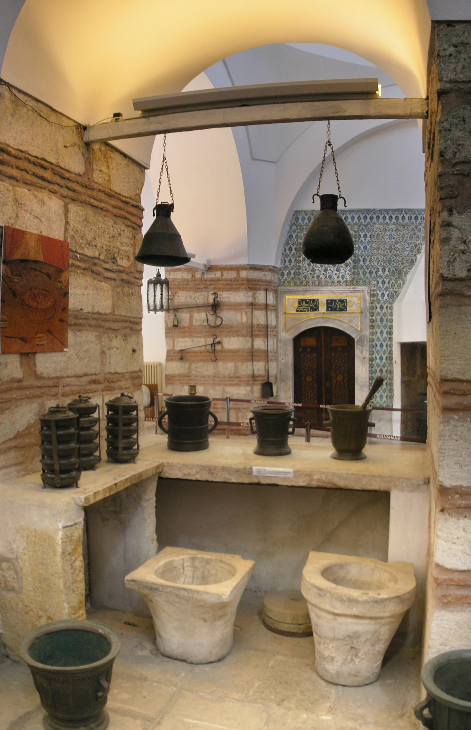 View of a traditional kitchen inside the palace kitchens of Topkapi Palace.